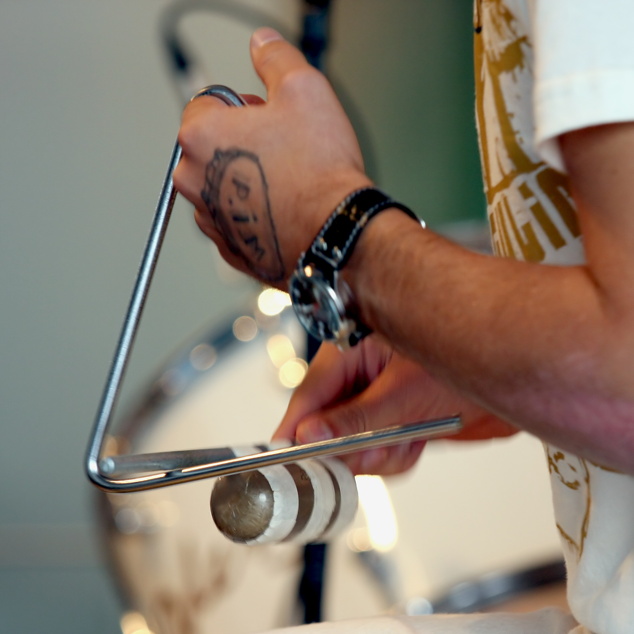 Valdir Santos and three members of his band performs in Cologne, Domforum